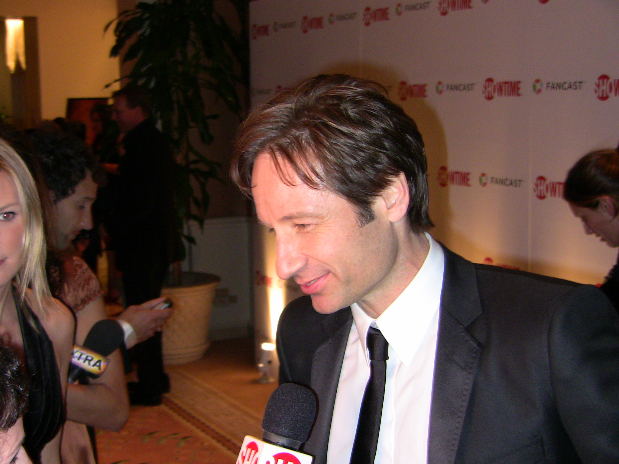 David Duchovny at the Showtime Golden Globes Party, The Peninsula Hotel, Beverly Hills, Calif. - Jan. 11, 2009